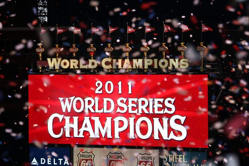 Scoreboard Jumbotron at Busch Stadium following St. Louis Cardinals 11th World Series Championship on October 28, 2011.